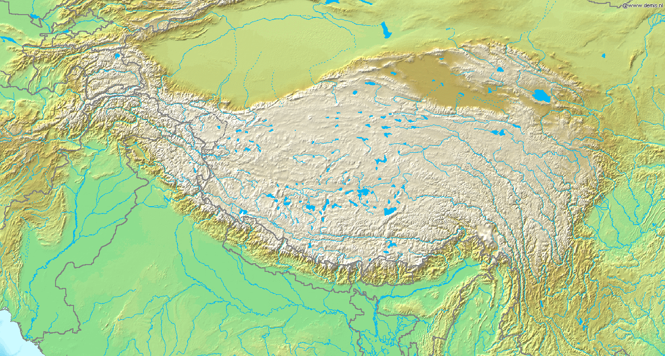 Topografic map of the Tibetan Plateau in Asia. Bounding box West 66°, South 23°, East 108°, North 42°.